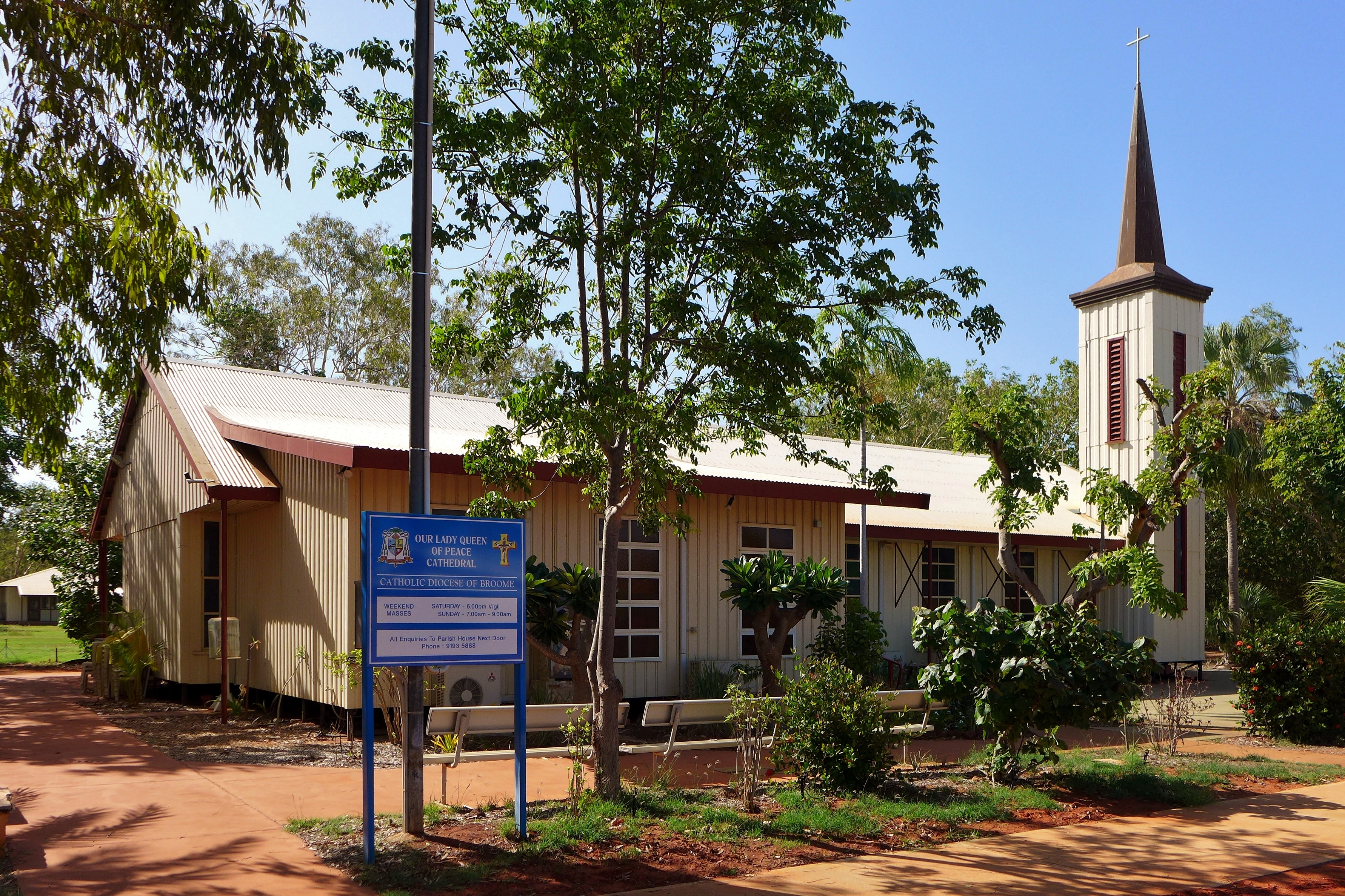 View of Our Lady Queen of Peace Cathedral, 34 Weld Street, Broome, Western Australia